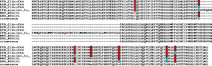 Display of the high conservation of ATG101 protein in different mammals